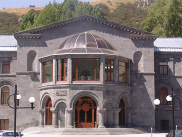 Sanatorium in Jermuk